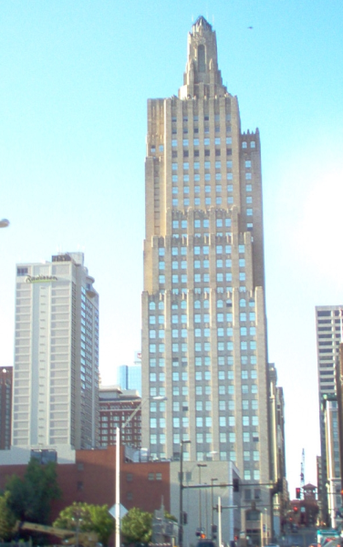 The Power and Light building in Downtown Kansas City, MO.